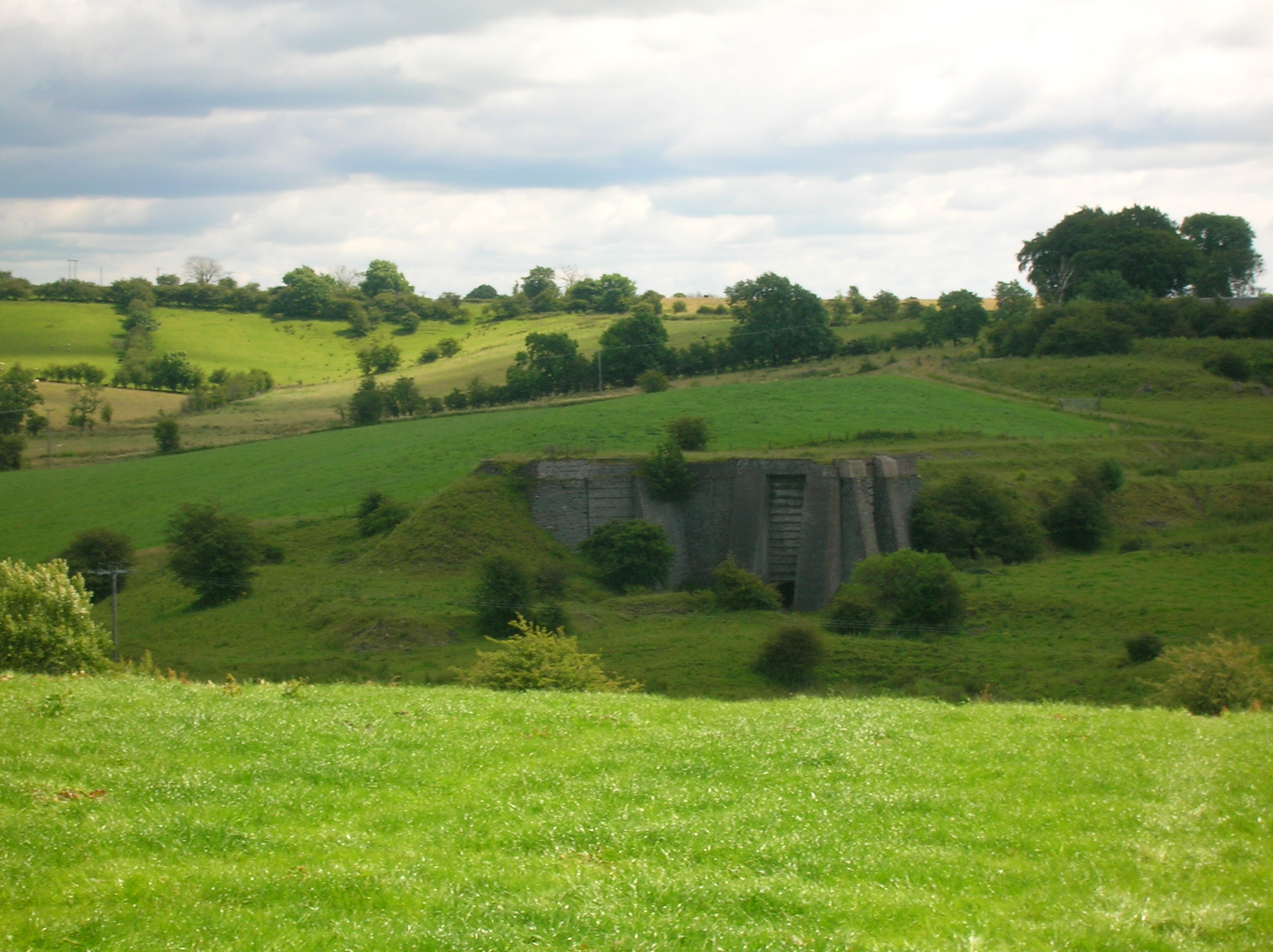 The old limekiln at Giffen or Nettlehurst limestone works at Barrmill in North Ayrshire, Scotland. Rosser 11:37, 25 July 2007 (UTC)